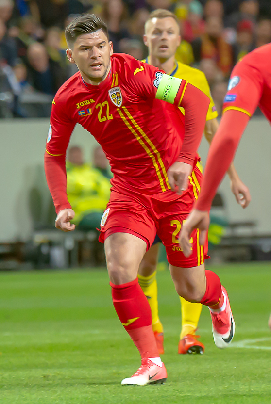 UEFA EURO qualifiers Sweden vs Romaina 20190323